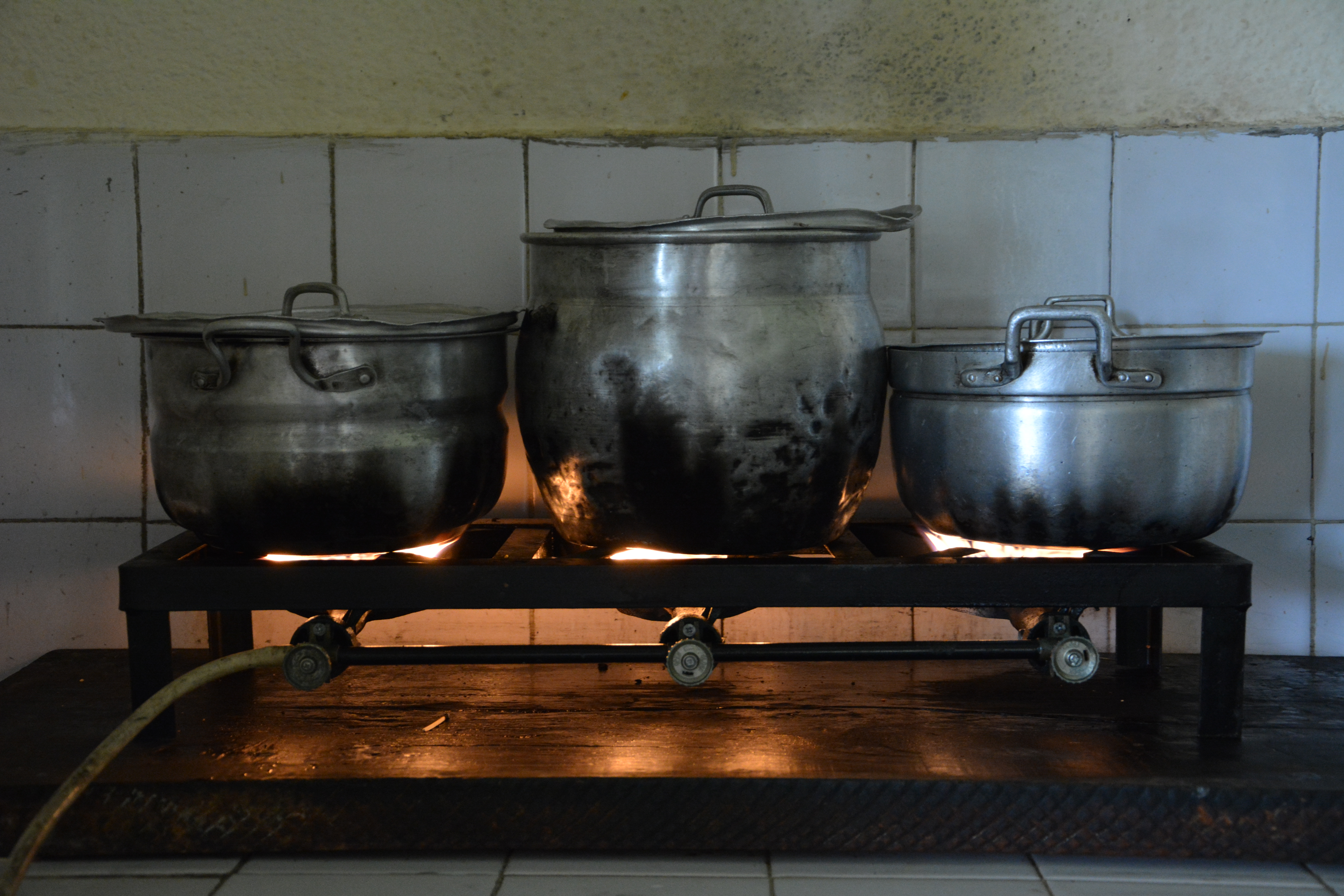 This is an image of food from Ivory Coast